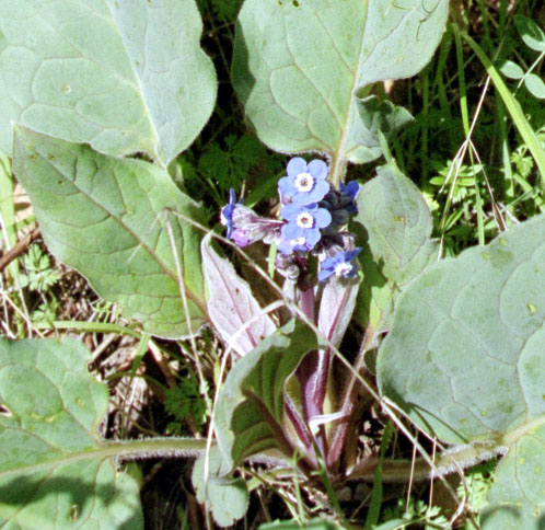 Cynoglossum grande, Western Houndstongue flowers. Taken by User:Elf March 4, 2006, Henry Coe park, San Jose, California